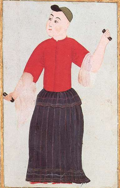 Dancer with castanets. Turkish miniature.